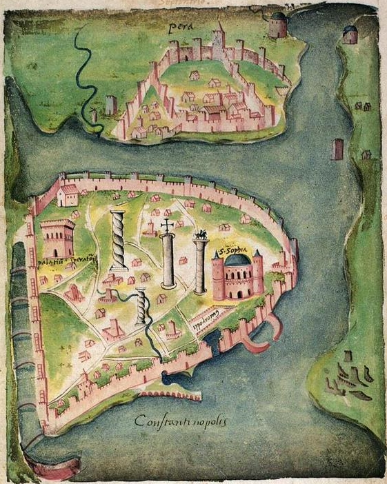 Christophorus Bondelmontius, Liber insularum Archipelagi, MS. Marcianus Lat.X.123 : map of Constantinople